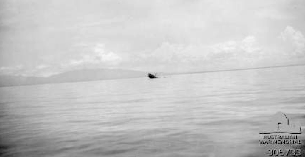 Off Porlock Harbour, New Guinea. 1943-03-08. After being hit by bombs in an attack by Japanese aircraft off Cape Nelson, the Dutch merchant vessel 's Jacob settles by the bow. Survivors can be seen swimming in the water. She was taking part in Operation Lilliput. (Naval Historical Collection) "Australian War Memorial notice: Copyright expired - public domain—This term describes material held in the National Collection that is clearly out of the period of copyright protection. Material that has passed out of the period of copyright protection is known as being in the “public domain” and is free of known copyright restrictions."